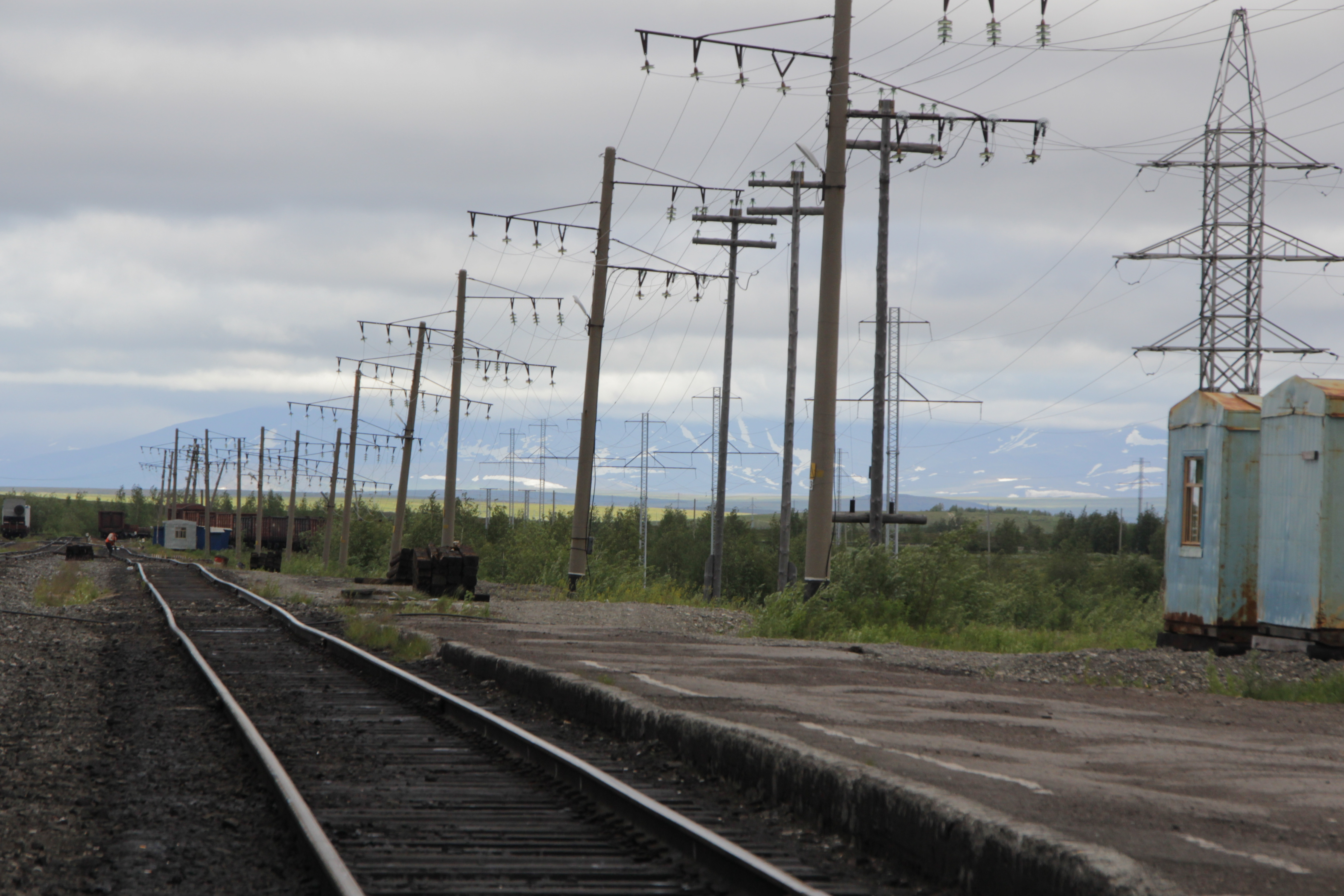 Jelezkaja-station, transpolar railroad, in the background mountains of polar Ural.